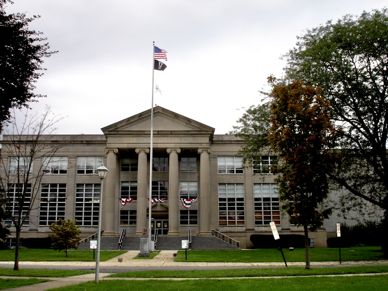 This is a picture I took of the Monmouth County Court House in Freehold Borough, NJ.